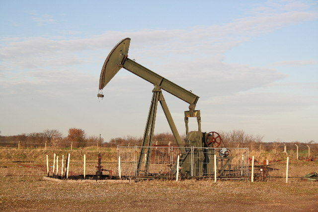 Nodding Donkey. An oil pump near Newton-on-Trent, these pumps are known locally as "nodding donkeys" ..... this one no longer nods.